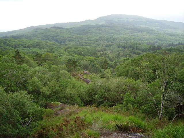 Glengarriff Forest View over the forest which occupies most of the square.